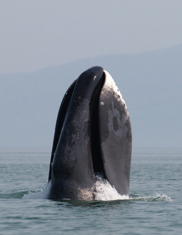 A bowhead whale spyhops off the coast of western Sea of Okhotsk by Olga Shpak